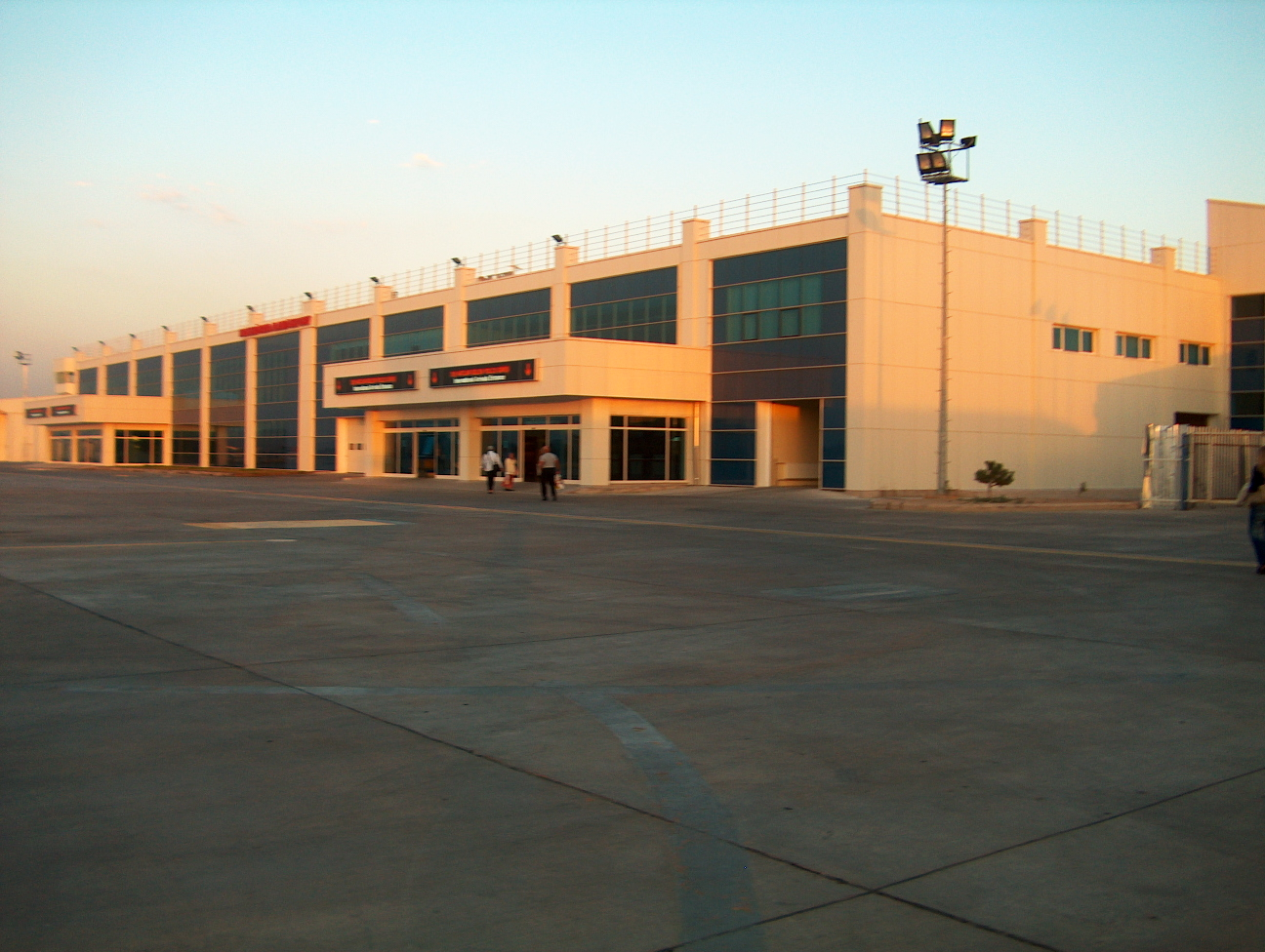 Photo taken shortly after landing